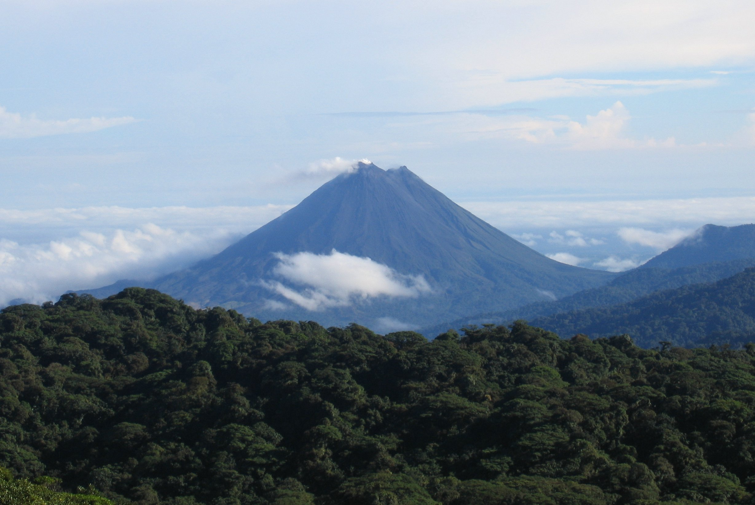 Arenal Volcano — as seen from the Monteverde Cloud Forest Reserve in the Cordillera de Tilarán. Located in Puntarenas Province, Costa Rica. Talamancan montane forests in foreground.